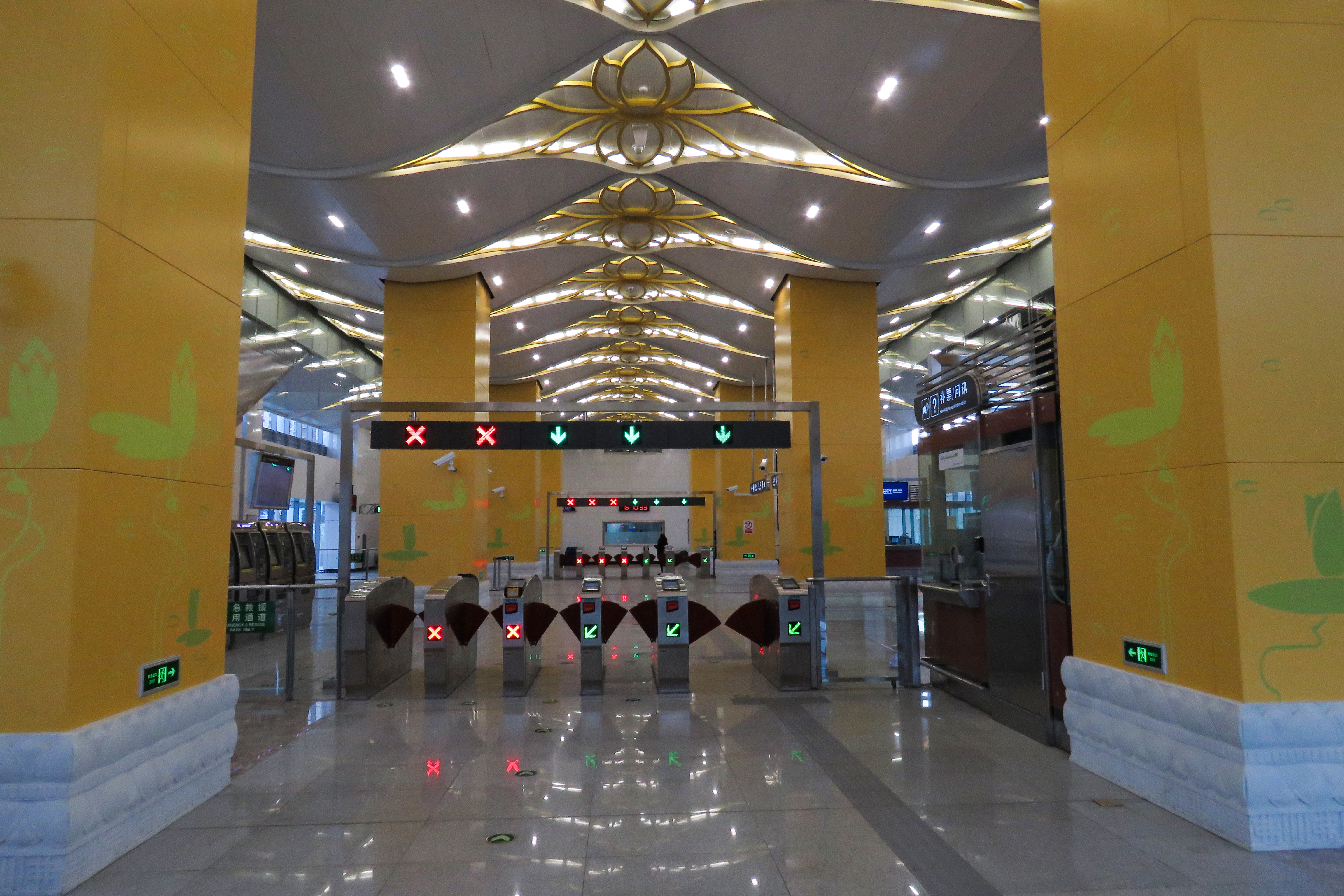 Buddhist elements: yellow, lotus.